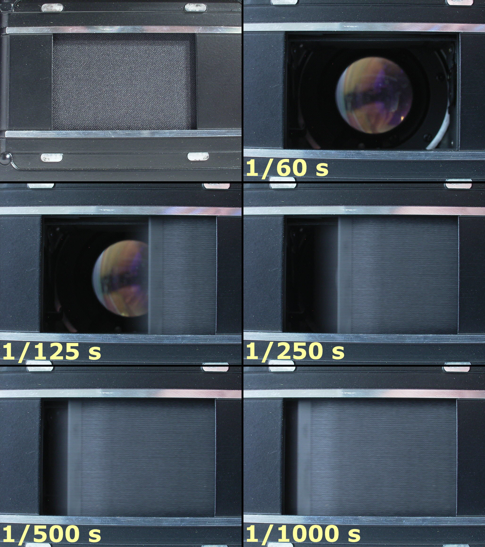 Due to their construction, focal plane shutters as used on most SLRs will only allow conventional xenon flash units to be used at shutter speeds slow enough that the entire shutter is open at once, often at shutter speeds of 1/60 or slower, but some modern cameras may have an X-sync speed as high as 1/500.